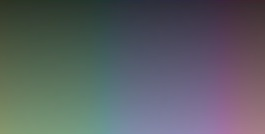 A sample of desaturated colours